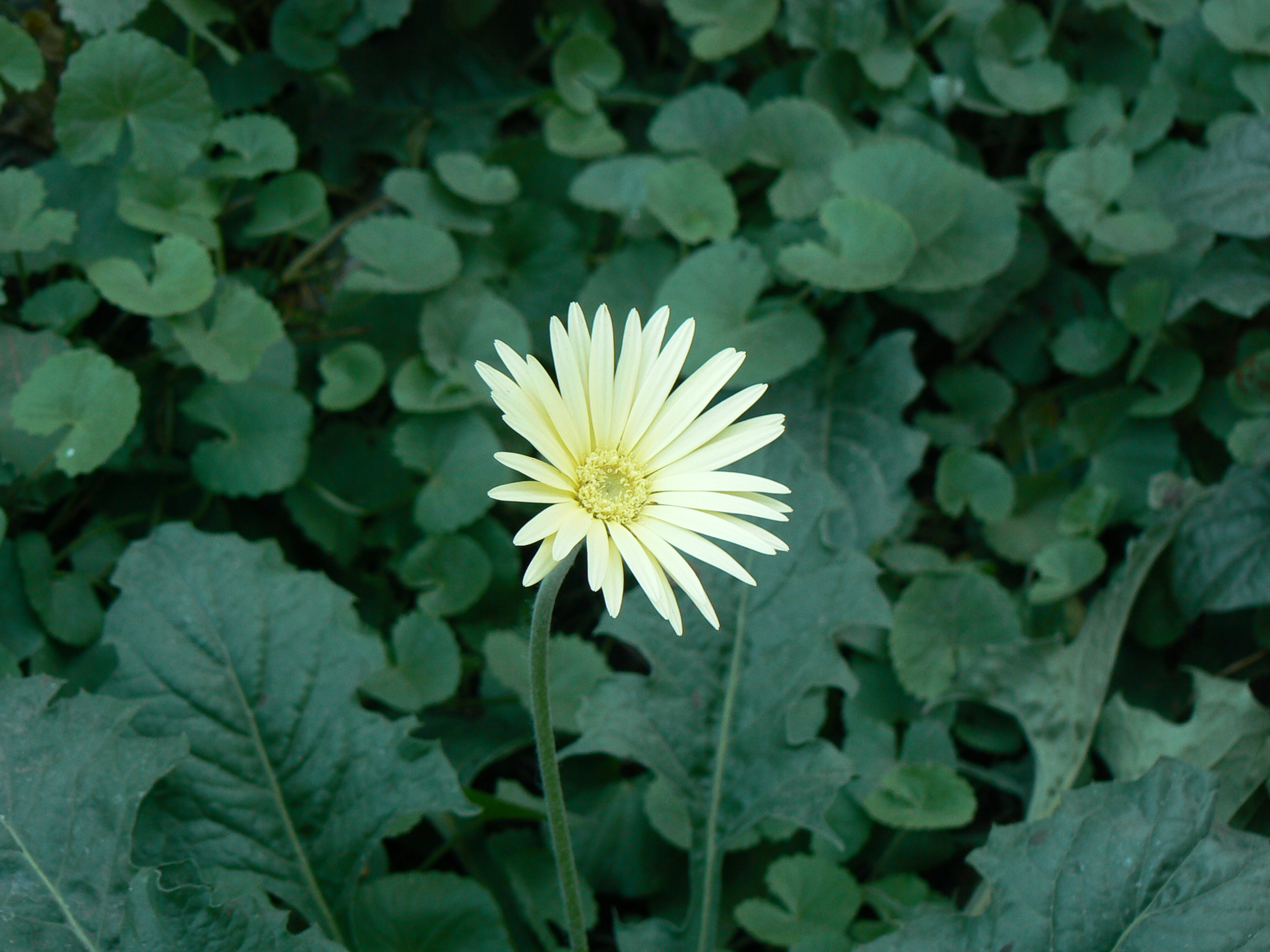 Common name: Gerbera Daisy, Transvaal Daisy, African Daisy, Barberton Daisy Botanical name: Gerbera jamesonii - [ (GER-ber-uh) named after Dr. Traugott Gerber, German naturalist; (jay-mess-OWN-ee-eye) named after Robert Jameson, 19th century amateur botanist who discovered the species ] Family: Asteraceae or alternatively Compositeae - [ (ass-ter-AY-see-ay) the aster (daisy) family; formerly Compositae ] Origin: South Africa The Gerbera jamesonii was discovered by Anton Rehmann in 1875 - 1880, but named in honour of Robert Jameson, who travelled the Lowveld about 1885. At Moodies Estate, near Barberton, he collected the plant. The epithet was proposed by Harry Bolus, the curator of the botanical garden in Cape Town, but first published by Adlam 1888 and should be ascribed to him. First Illustrations of the Barberton Daisy (which is its popular name) were published in the Gardener's Chronicle in England in 1889. It is described as follows: "The roots are fascicled, whipcord-like, 1 - 2,5 mm wide, the central part often reported as taproot-like. The crown is felted or villose. Several long-stalked spreading leaves, 15 to 42 cm long, in some cases up to 68 cm long and 4 to 14 cm wide. The upper surface is dark green, the lower one waxy green, the leaves have very distinct ragged edges. The flowers grow on long single stems. and can reach a diameter of up to 75 mm in some cases even more. The colours vary from white to dark red with all variations inbetween. The most prominent colour is orange-red. The pappus is creamy white to dirty white." Courtesy: - Flowers of India - Dave's Garden - The Gerbera Association Note: Identification attempted; may not be accurate.